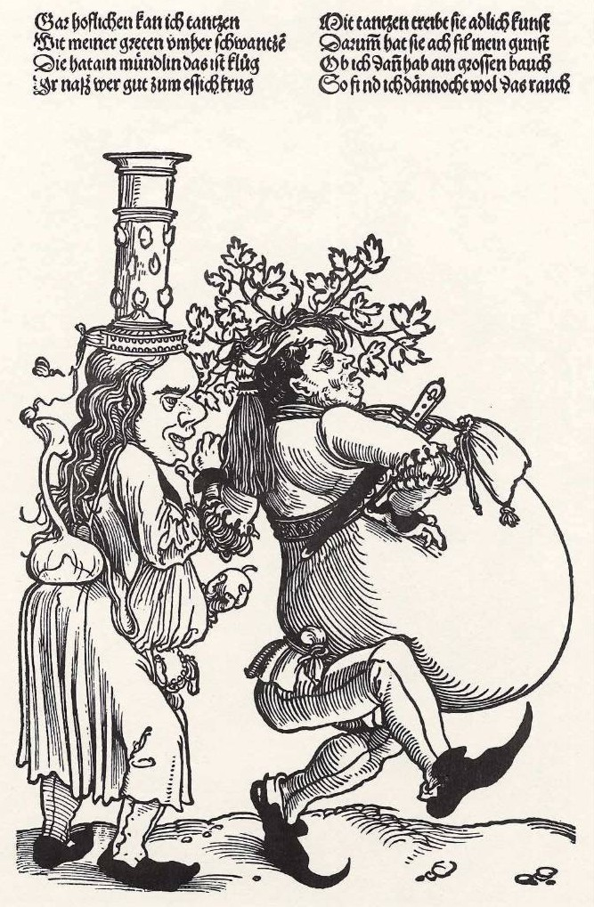 Dancer and his doxy